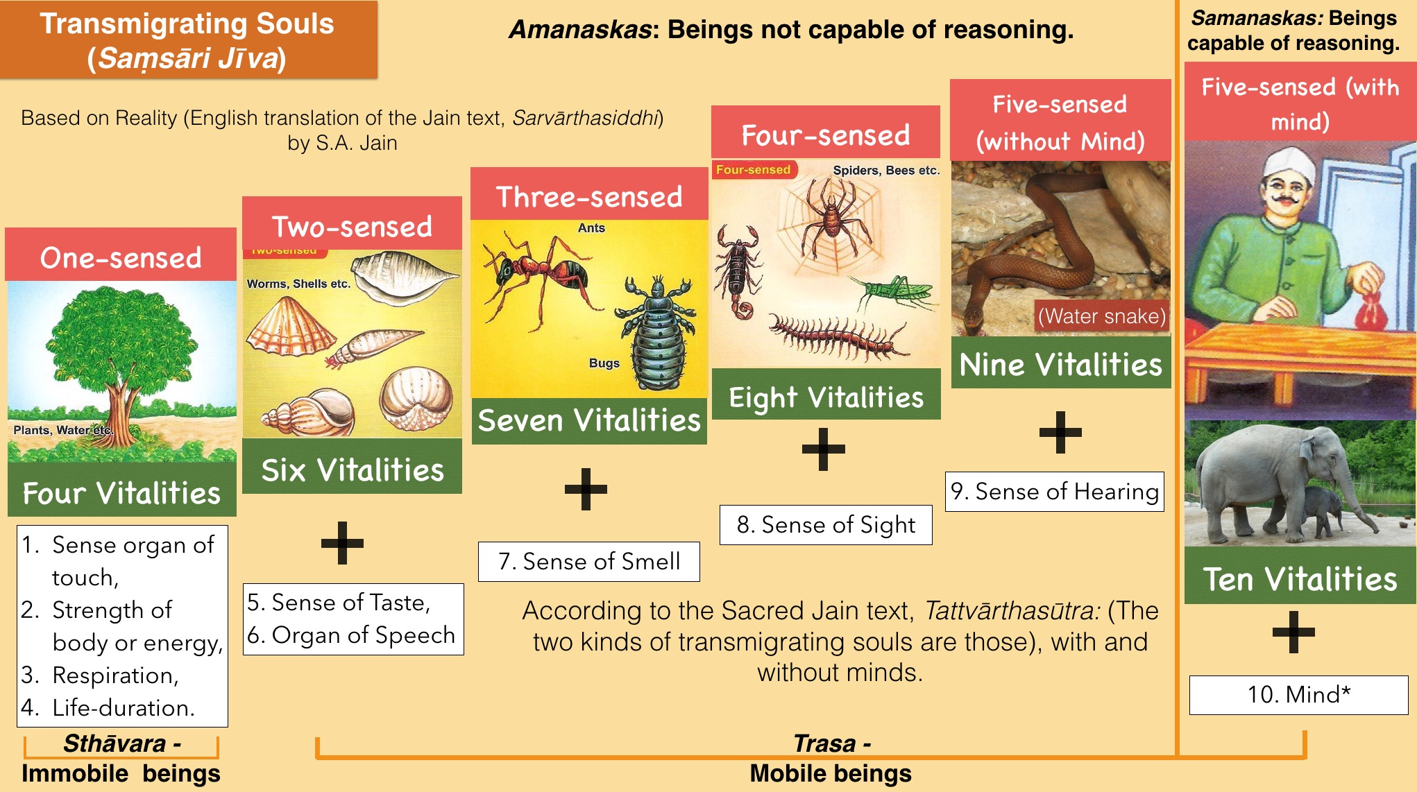 All images used are in public domain. Kinds of Saṃsāri Jīvas (Transmigrating Souls) as per Jainism. According to Sacred Jain text, Ācārya Pujyapada’s Sarvārthasiddhi: Immobile beings (sthāvara jīvās) possess the four vitalities of the sense-organ of touch, strength of body or energy, respiration and life-duration. The two-sensed beings have six (life principles), namely the sense of taste and the organ of speech in addition to the former four. The three-sensed beings have seven with the addition of the sense of smell. The four-sensed beings have eight with the addition of the sense of sight. In the animal world the five-sensed beings without mind have nine life principles with the addition of sense of hearing. Those endowed with mind have ten, with the addition of the mind. The worm, the ant, the bee, and the man, etc., have each one more sense than the preceding one. The worm and similar creatures possess the sense of taste in addition to the sense of touch. The ant and similar creatures the sense of smell in addition to the senses of touch and taste. The bee and creatures of that class possess the sense of sight in addition to the senses of touch, taste and smell. Man and the beings similar to him possess the sense of hearing in addition to the former four. Excerpted from: Jain, S.A., Reality, p. 62-63, 67 (Non-copyright).